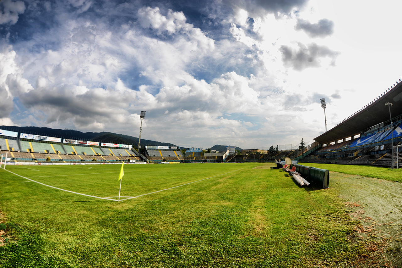 Stadio Mario Rigamonti in Brescia, Lombardy, Italy